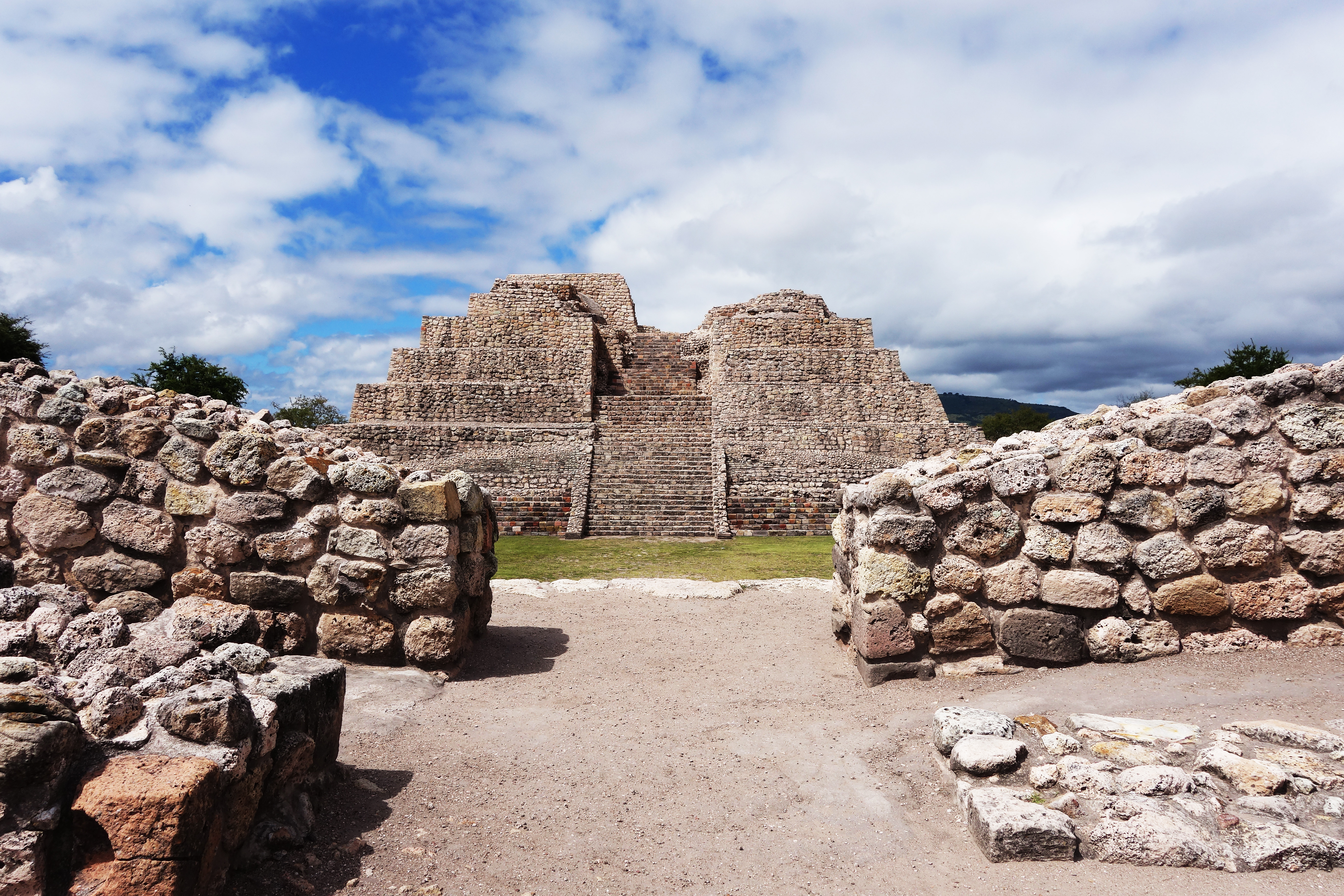 House of the Thirteen Heavens